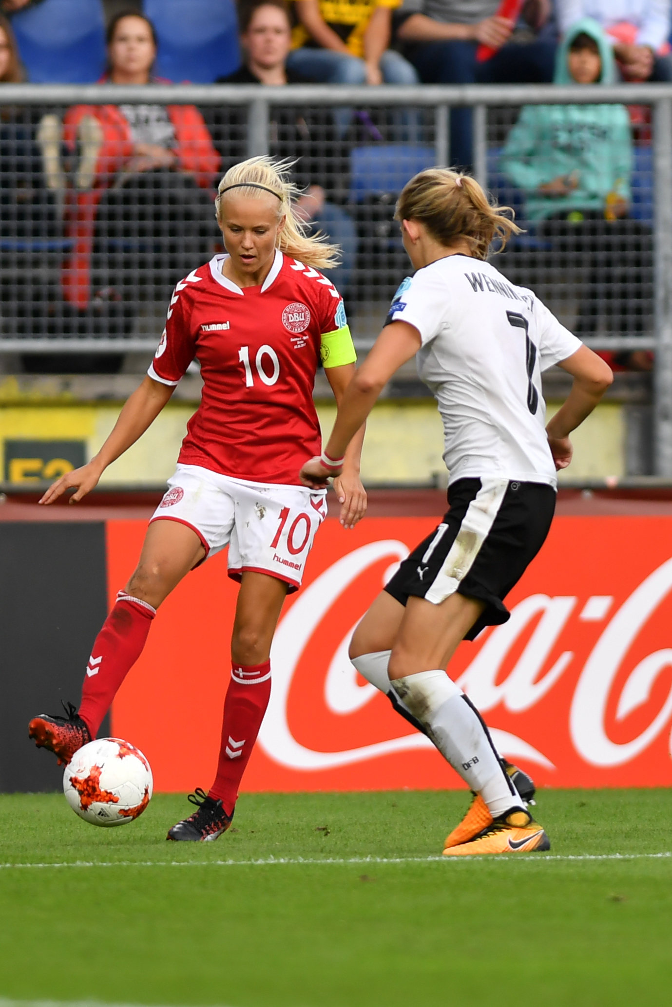 3/8/2017, Breda, Netherlands, sports, soccer, UEFA Women's Euro 2017 - Semifinal - Denmark vs Austria.